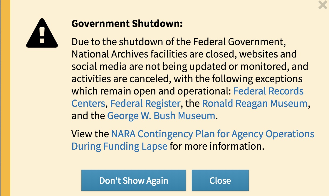 NARA shutdown message January 14, 2019